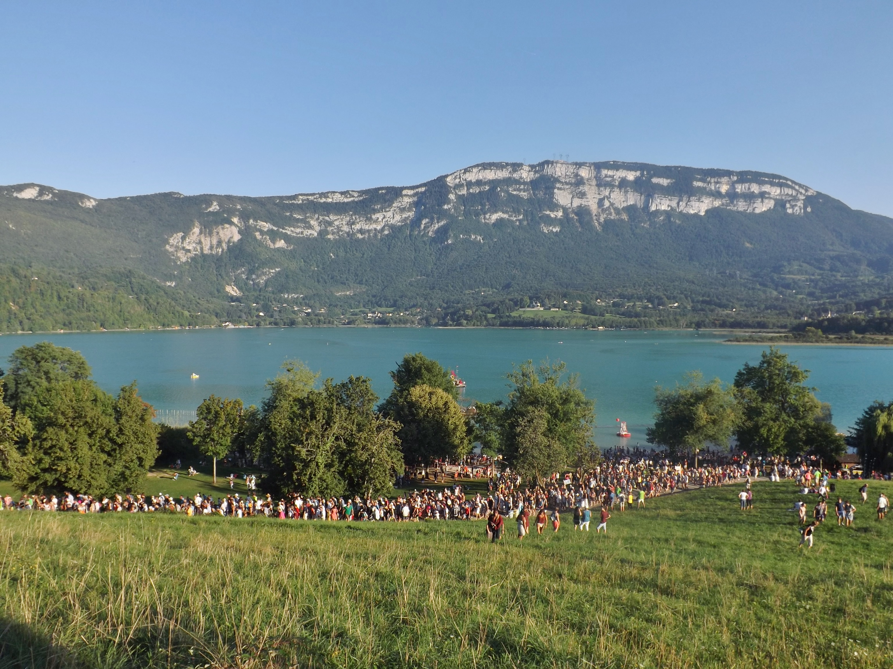 Panoramic view on the lac d'Aiguebelette lake, from the heights of Le Sougey beach where has just ended the opening ceremony of the 2015 Word Rowing Championships, in Savoie, France.